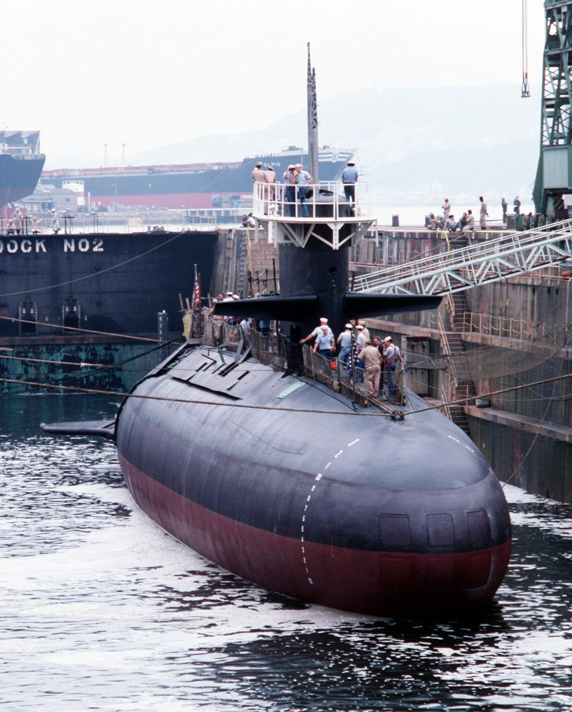 At Dry Dock No.2 which begin to fill with water, the workers are manually turning the swivels to increase the flow. On the Barbel (SS-580), crew members stand at the railing of the attack submarine as the dry dock in which it is positioned is filled with water to refloat the vessel following repairs. The Barbel is completing a Docking Selected Restrictive Availability (DSRA) at Saebo Heavy Industries on 6 Oct 1988.